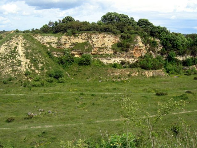 Bishop Middleham Quarry